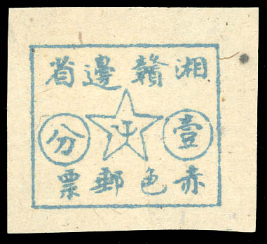 Chinese Red Posts, 1931, Hunan-Jiangxi Red Post, 1¢ grayish blue (Yang RP12), without gum as issued, a splendid example with huge, even margins, wonderfully fresh and bright, Very Fine, very scarce, with 1998 A.P.S. certificate.